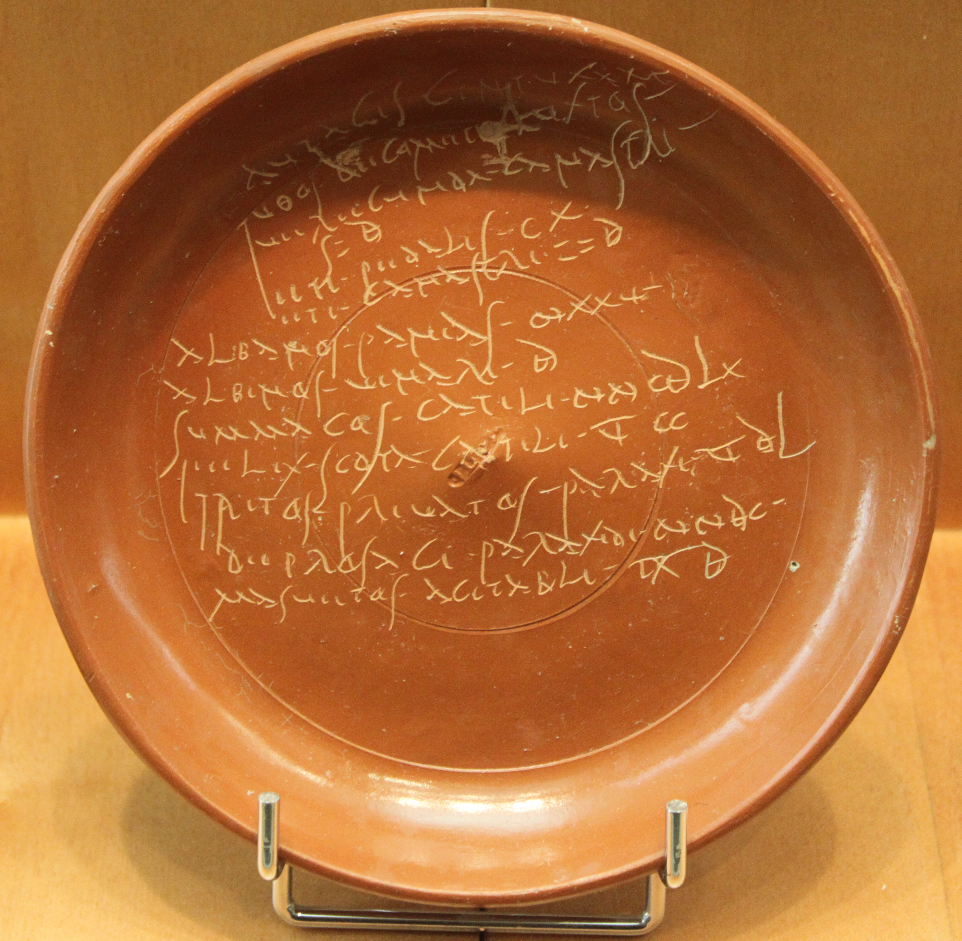 Ancient Roman inscription on terra sigillata from La Graufesenque